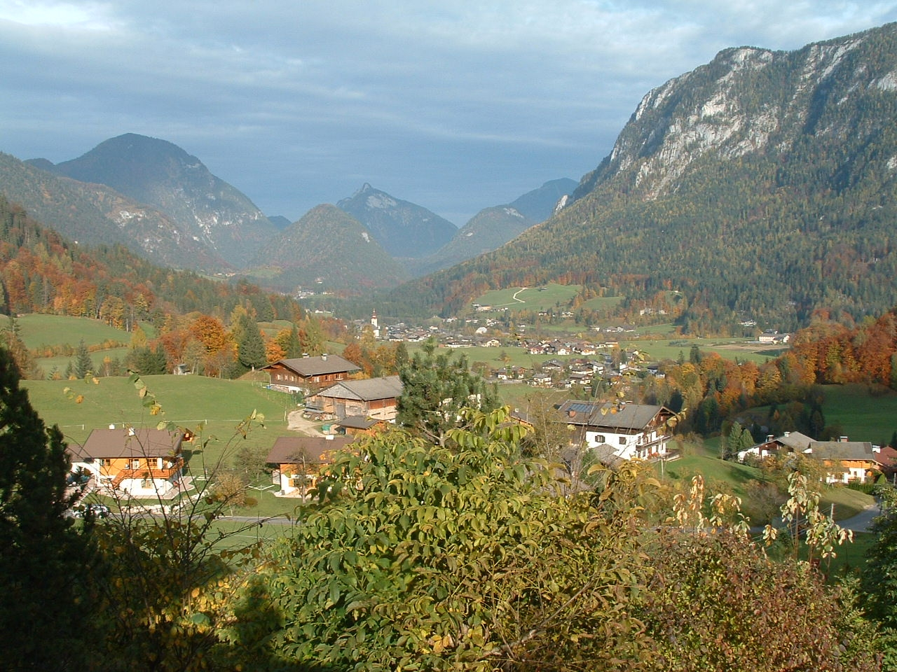 Overview Unken, Austria Photographed by Gakuro